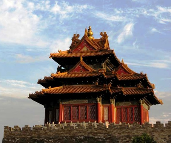 Beijing watch tower when sunset